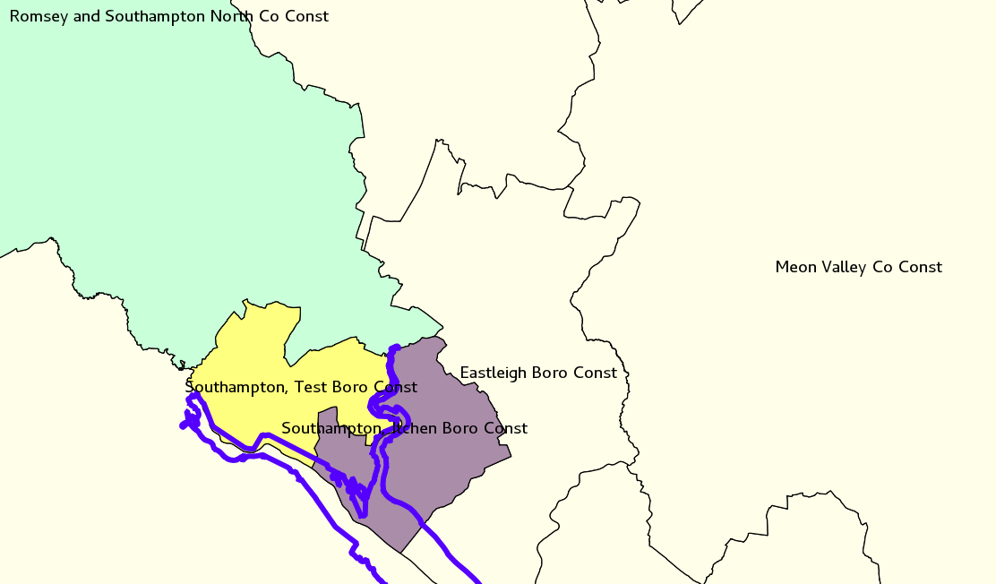 Data from rendered using QGIS